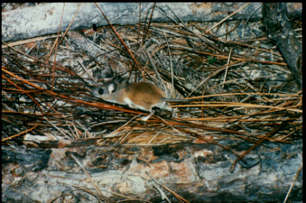 Source